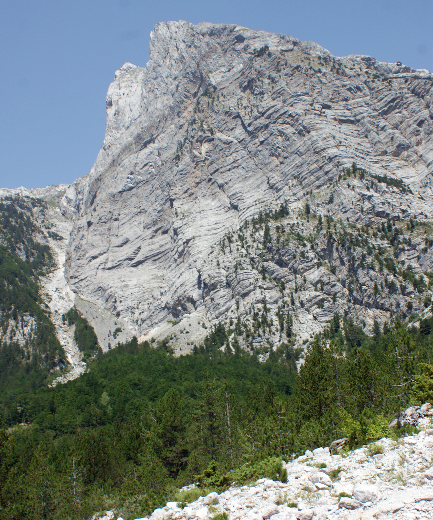 Arapi Mountain: South wall – Theth, Albania